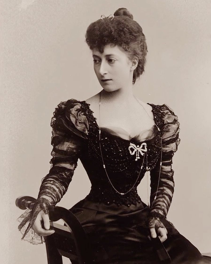 Queen Maud of Norway (nee Princess of Wales)